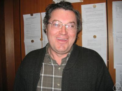 Joszef Beck, Hungarian-American mathematician.